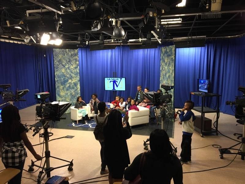 studio picture